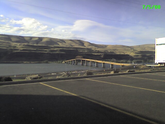 US97 Bridge over the Columbia River From Biggs Junction, OR Object location